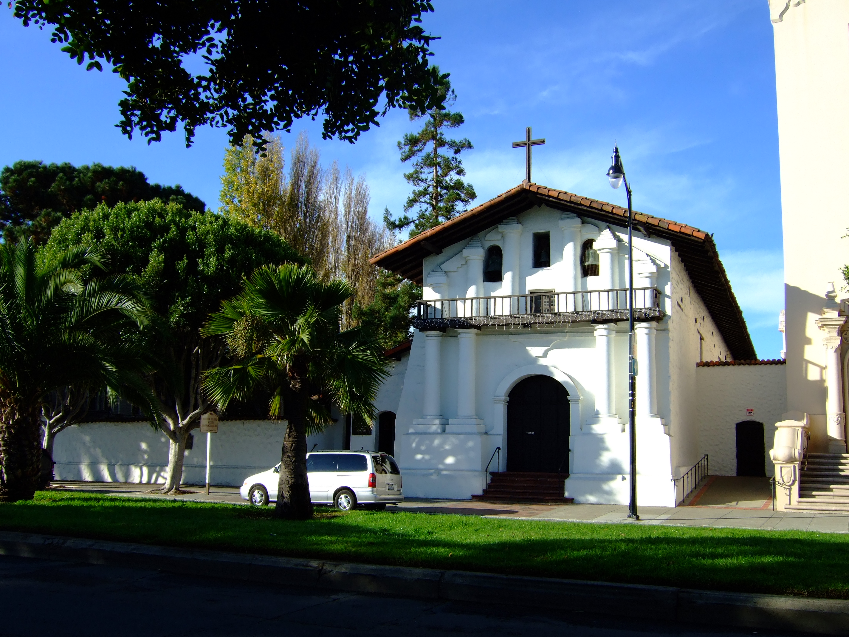 18th-century chapel of the "Mission Dolores" (Mission San Francisco de Asís), in San Francisco